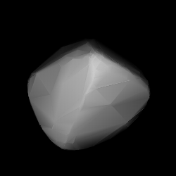 3D convex shape model of (4715) 1989 TS1, computed using light curve inversion techniques. J. Hanuš, J. Ďurech, M. Brož, B. D. Warner (June 2011). "A study of asteroid pole-latitude distribution based on an extended set of shape models derived by the lightcurve inversion method". Astronomy and Astrophysics 530: A134. ISSN 0004-6361. arXiv